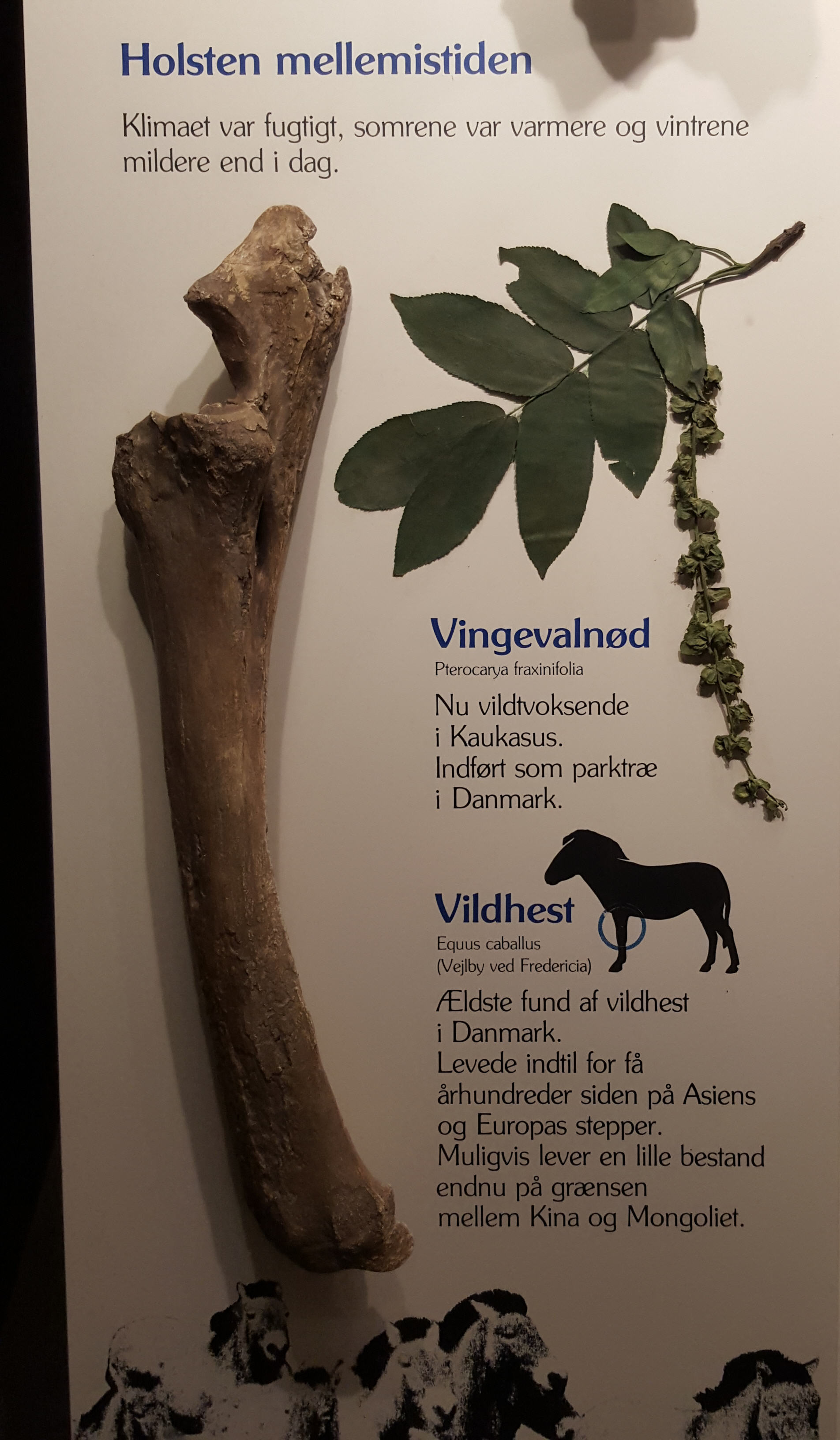 Holstein interglacial, Århus museum of Natural History, Århus, Denmark